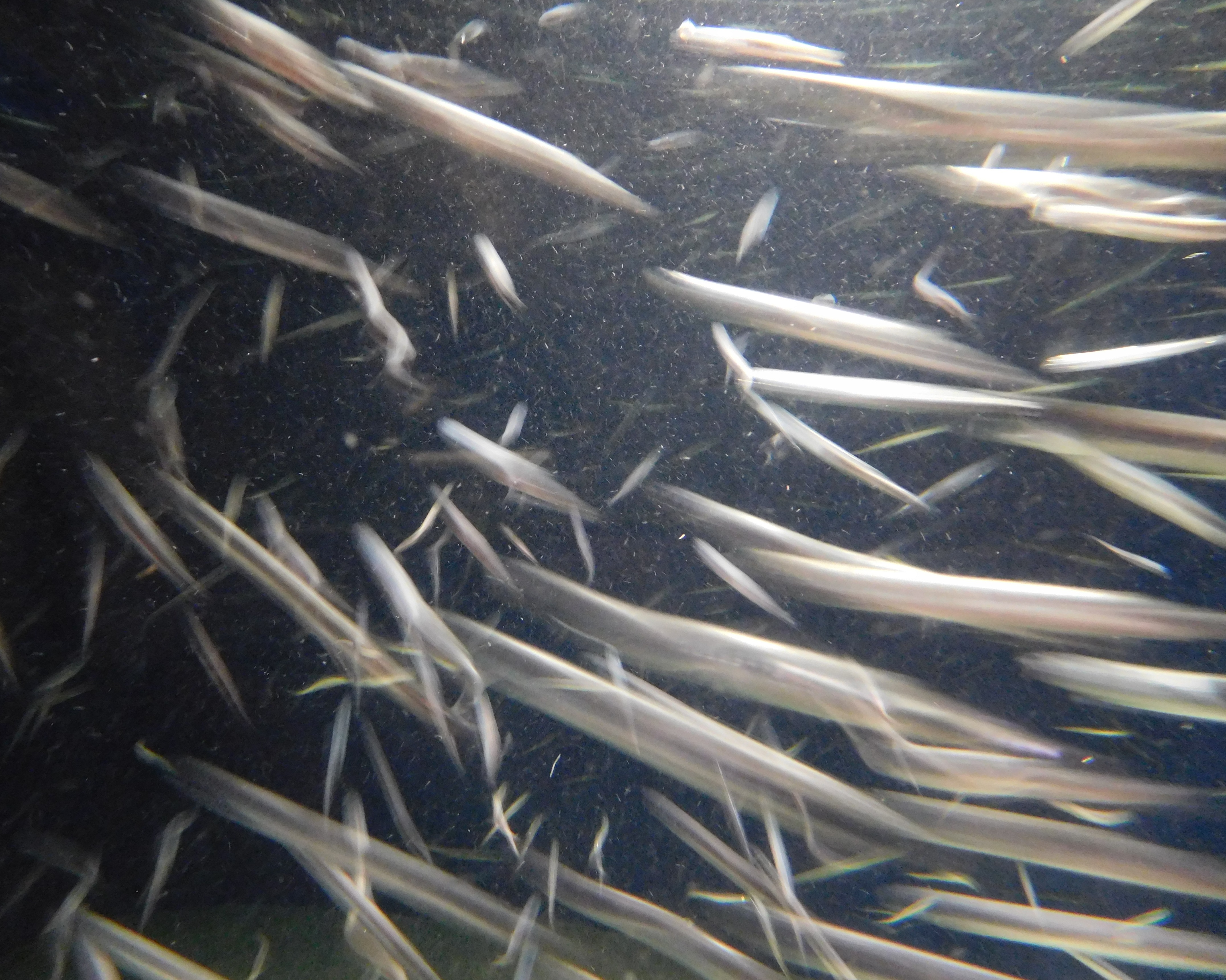 They are whitebait, small fish of Japanese anchovy at ENOSHIMA AQUARIUM.